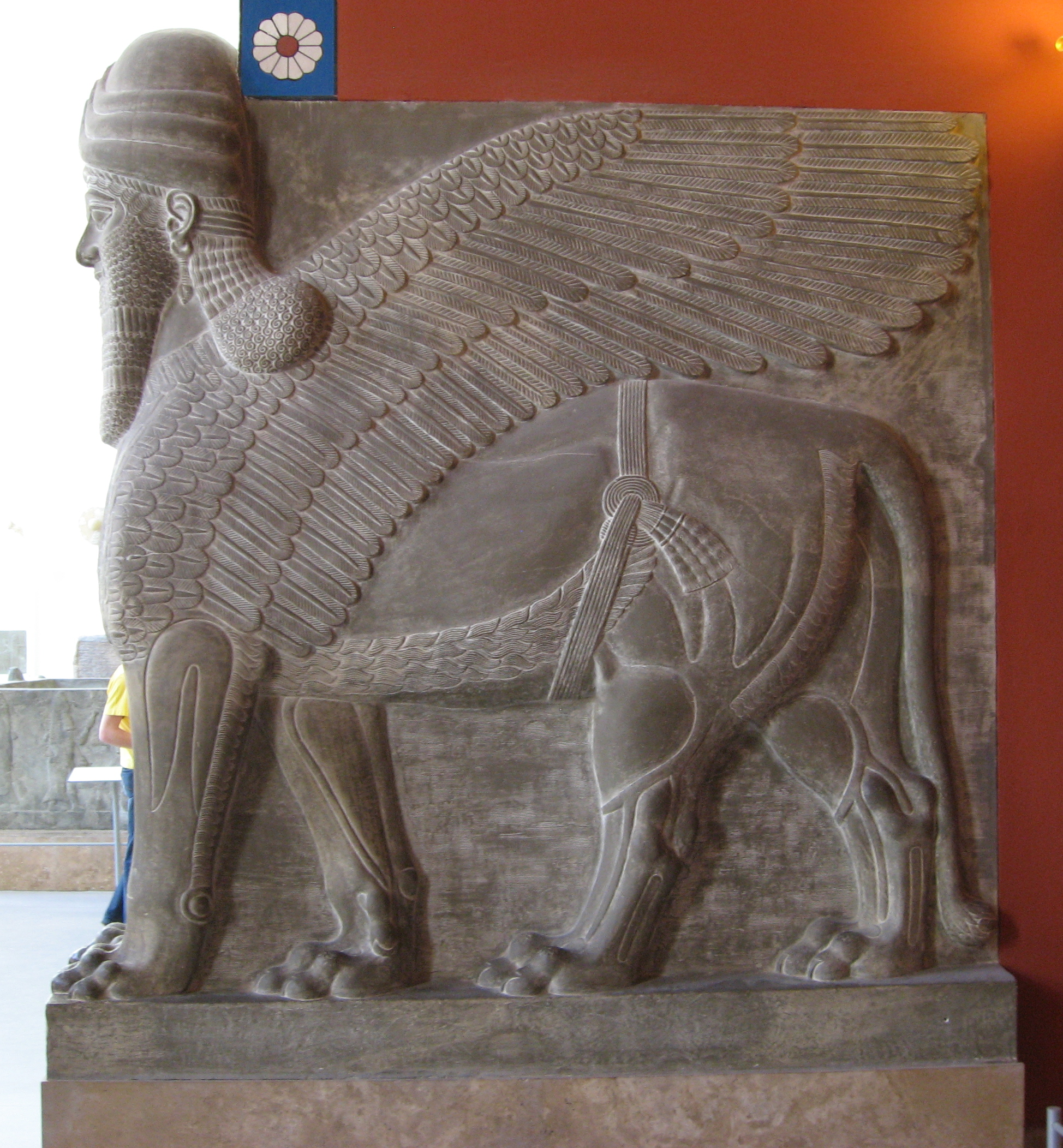 so-called Shedu-Lamassu from the palace of Tukulti-Ninurta I. Originals are at the British Museum